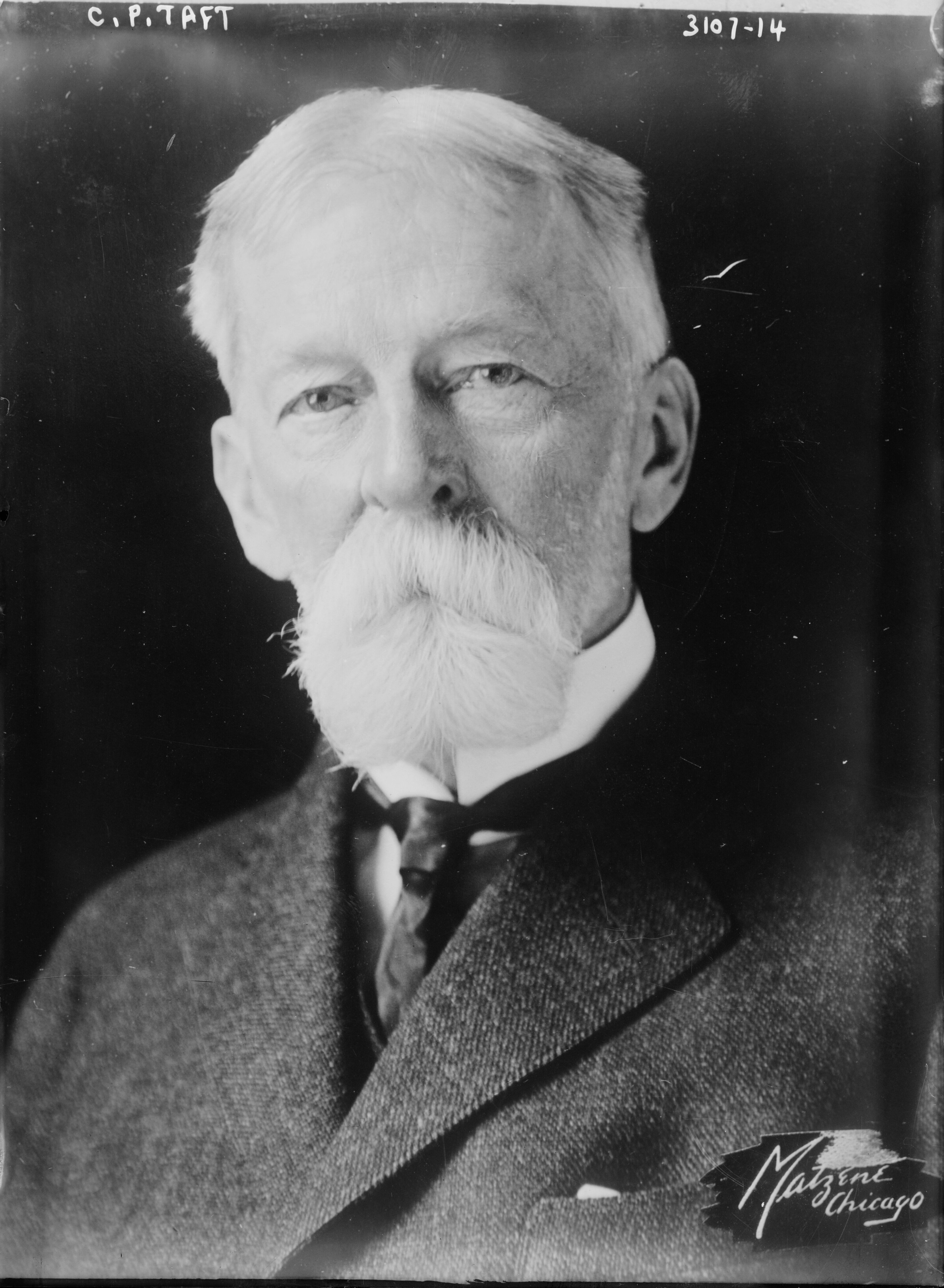 C. P. Taft in 1914 Bain News Service,, publisher. C.P. Taft [between ca. 1910 and ca. 1915] 1 negative : glass ; 5 x 7 in. or smaller. Notes: Title from unverified data provided by the Bain News Service on the negatives or caption cards. Forms part of: George Grantham Bain Collection (Library of Congress). Format: Glass negatives. Repository: Library of Congress, Prints and Photographs Division, Washington, D.C. 20540 USA, General information about the Bain Collection is available at Persistent URL: Call Number: LC-B2- 3107-14